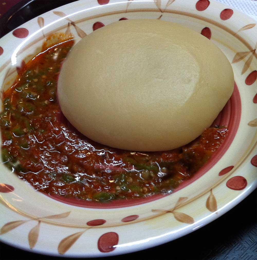 This food is made from cassava flour. The cassava is left in the sund to dry, then grinded to produce the flour. The food is preferred in most rural areas of Tanzania. The Zigua tribe have a special name for this, which is Bada.Kiswahili: Ugali wa muhogo ni chakula kinachotengenezwa na mihogo iliyokaushwa na kusagwa. Hiki chakula ni mahsusi kwa wale wanaoishi vijijini. Ni chakula chenye virutubisho vingi vya kujenga mwili This is an image of food from Tanzania